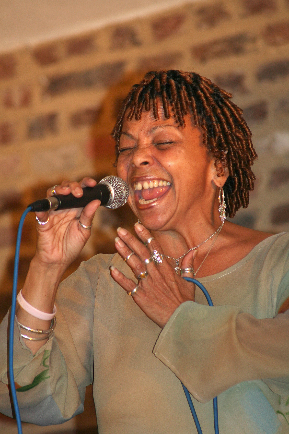 Lillian Boutté with the Maryland Jazz Band of Cologne, Kerpen NRW, Germany 2006